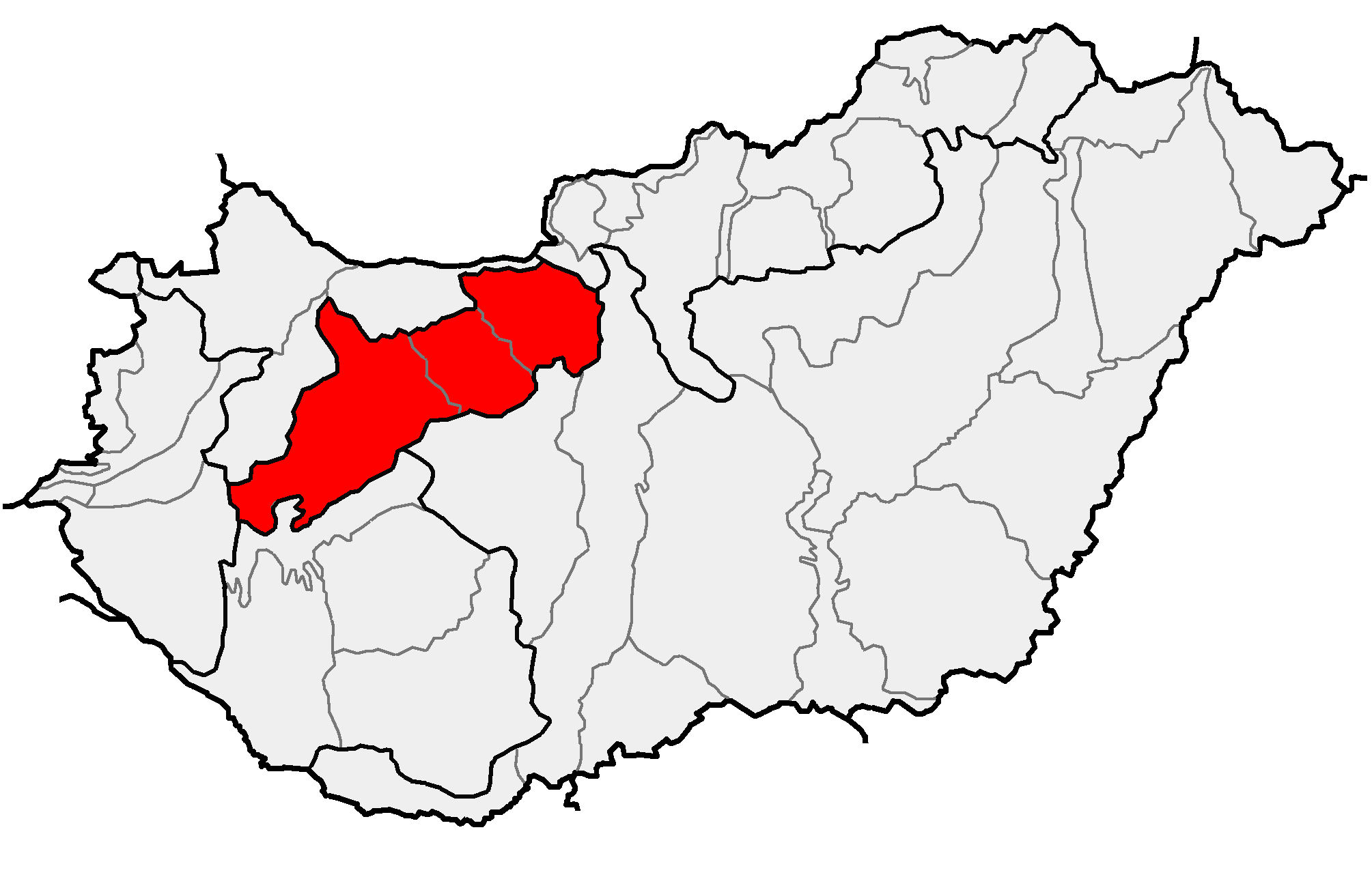 Location of geographical macroregion of Dunántúli-középhegység (red) within subdivisions of Hungary.